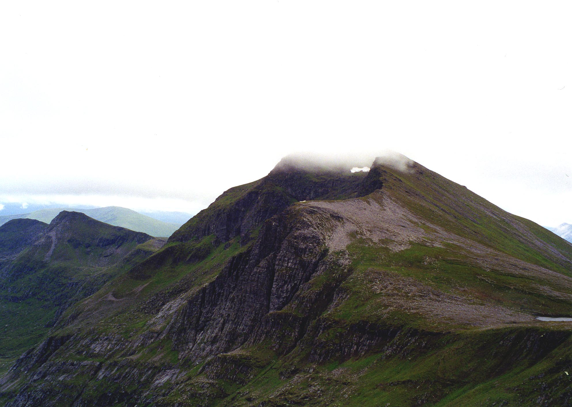 Personal picture taken by Mick Knapton